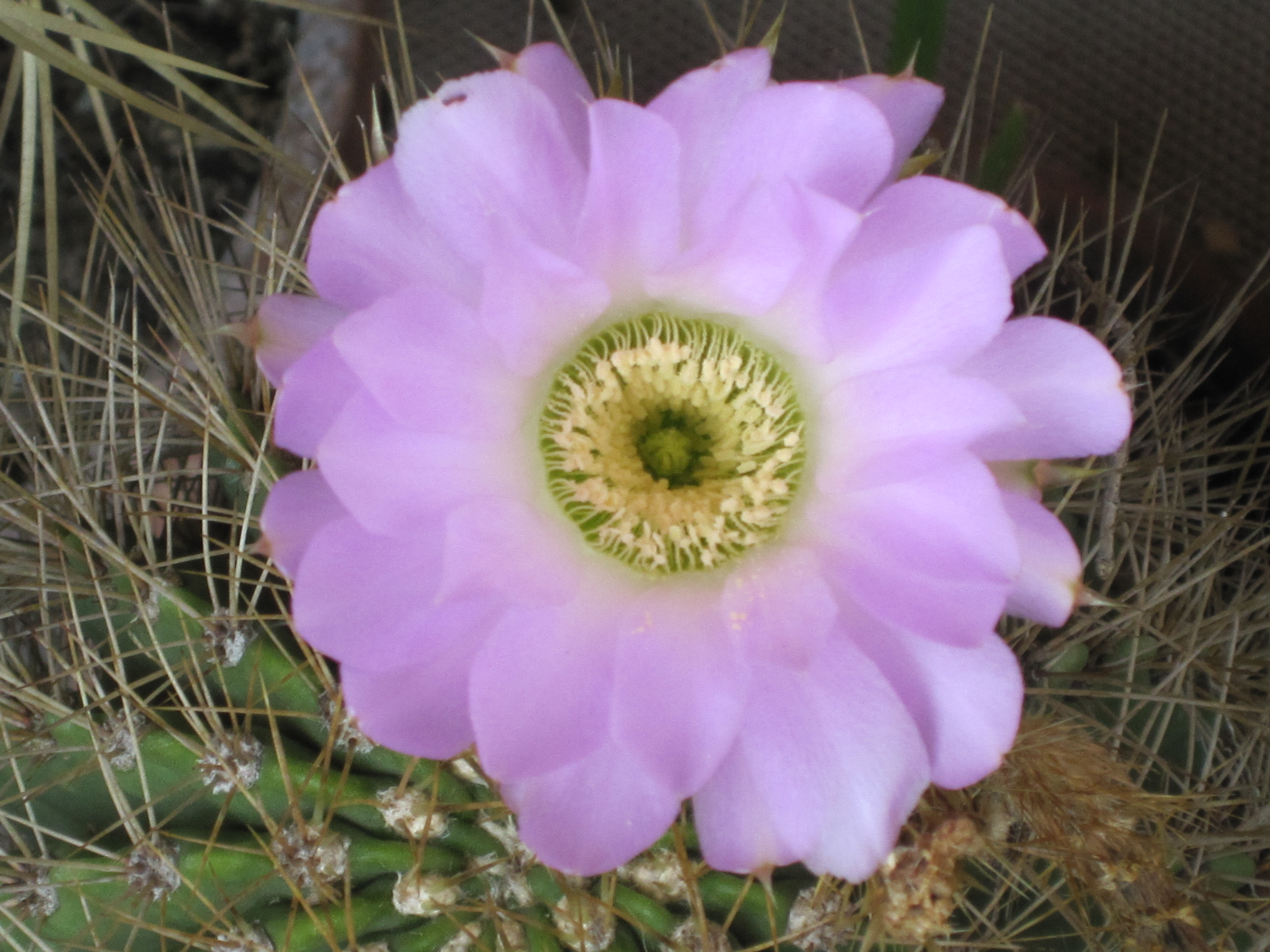 Acanthocalycium violaceum or spiniflorum: the flower